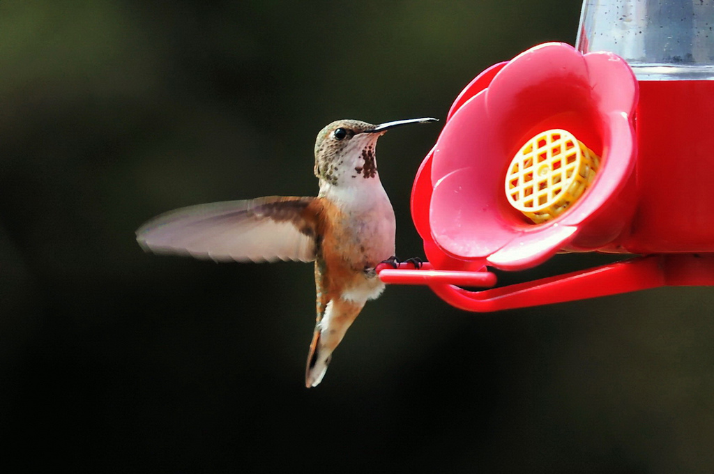 A Female Rufous hummingbird (Selasphorus rufus)